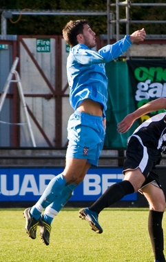 Chris Smith playing for York City against Forest Green Rovers at the New Lawn, Nailsworth on 30 October 2010